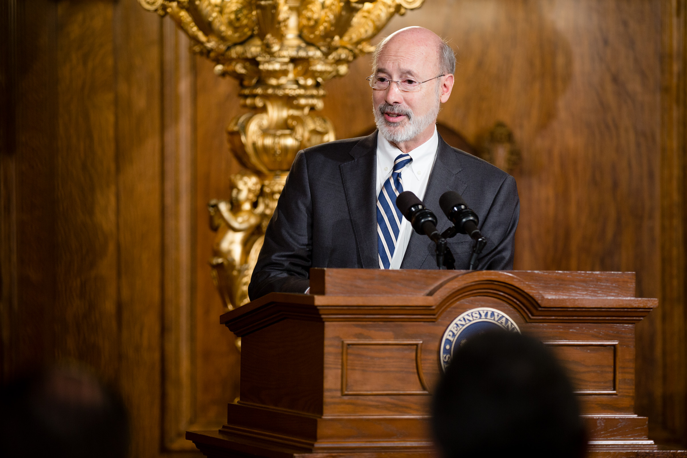 February 14, 2018 Harrisburg, PA